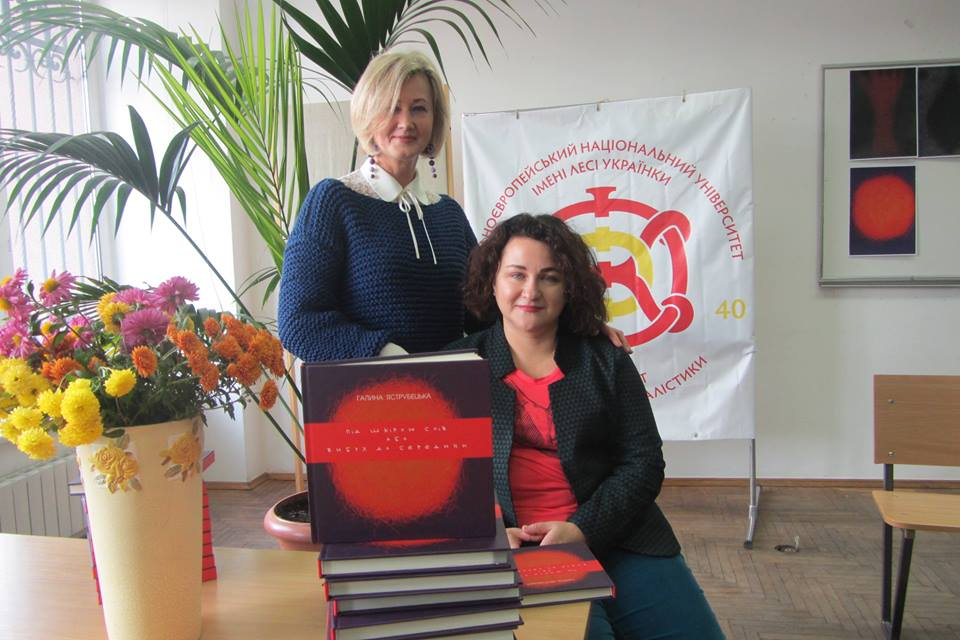 Presentation 2018 Galyna Yastrubetska